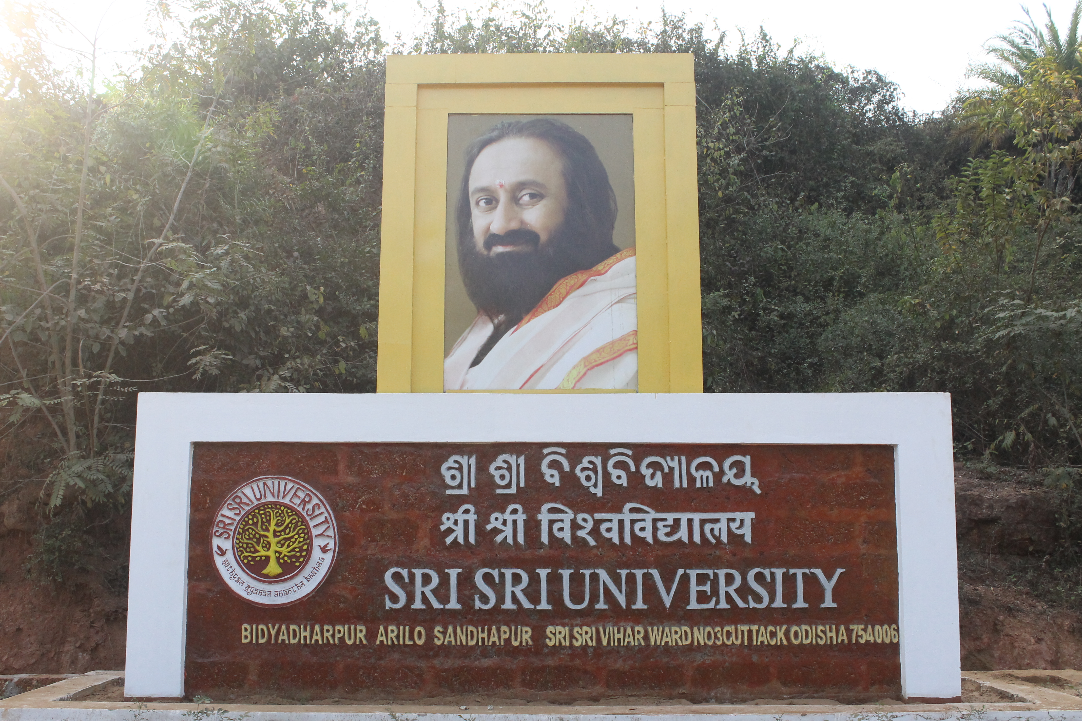 ଶ୍ରୀ ଶ୍ରୀ ବିଶ୍ଵବିଦ୍ୟାଳୟ